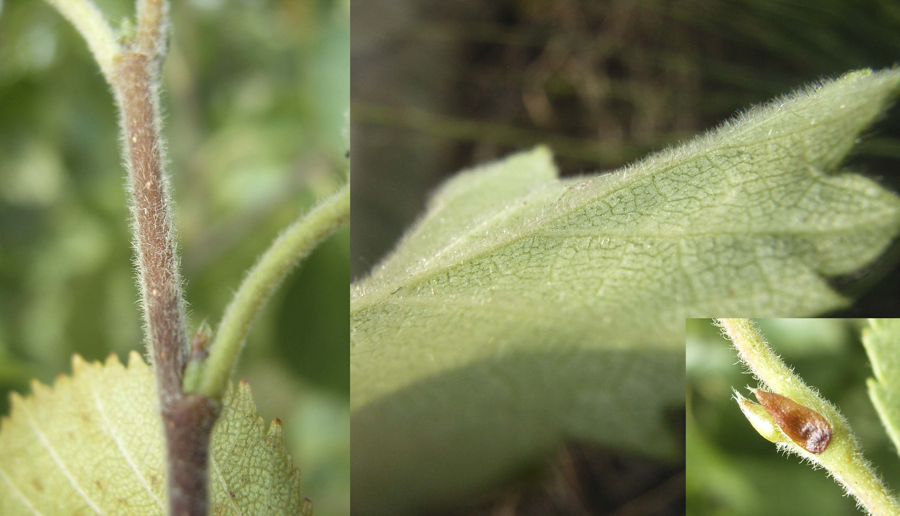 Closeup of pubescent textures of Betula pubescens.